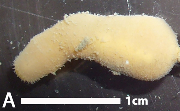 Adult with fully protruded introvert of the priapulid worm Halicryptus spinulosus